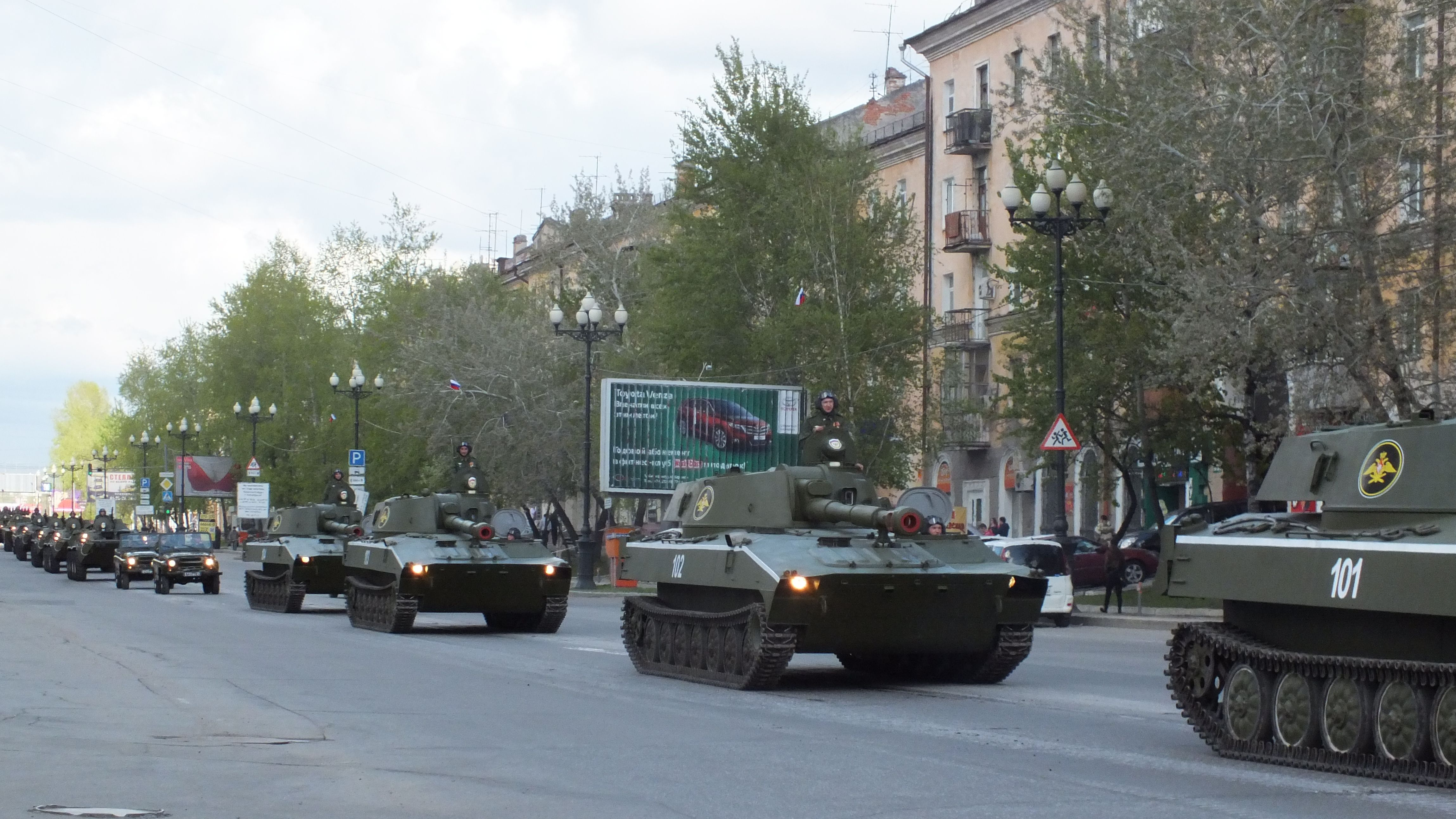 Far Eastern Military District